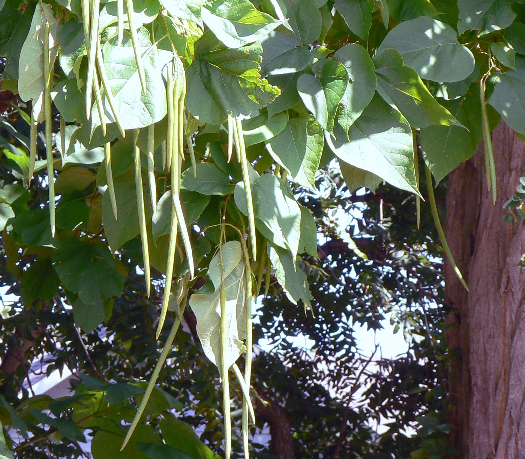 Capsule fruit and leaf details of the Northern Catalpa tree.